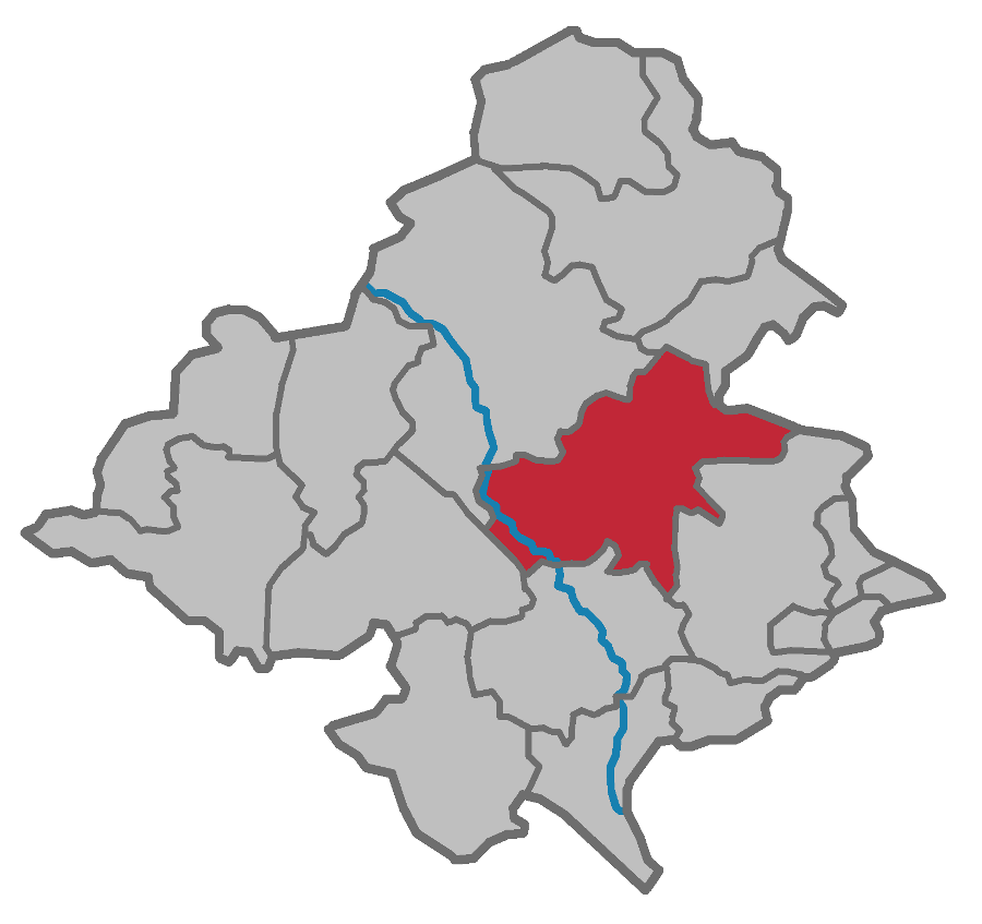 Locator map of Groß Strehlitz district in Upper Silesia